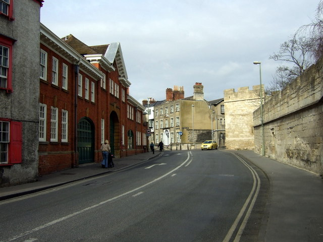 Longwall Street The old wall of Magdalen College on the right gives the street its name. This view, looking north, shows the junction with Holywell Street, now gated, and St Cross Road. In the C18 two undergraduates were hanged for highway robbery on the gallows there. The brick building on the left is the 1910 Morris Garage where the future Lord Nuffield created his first car.